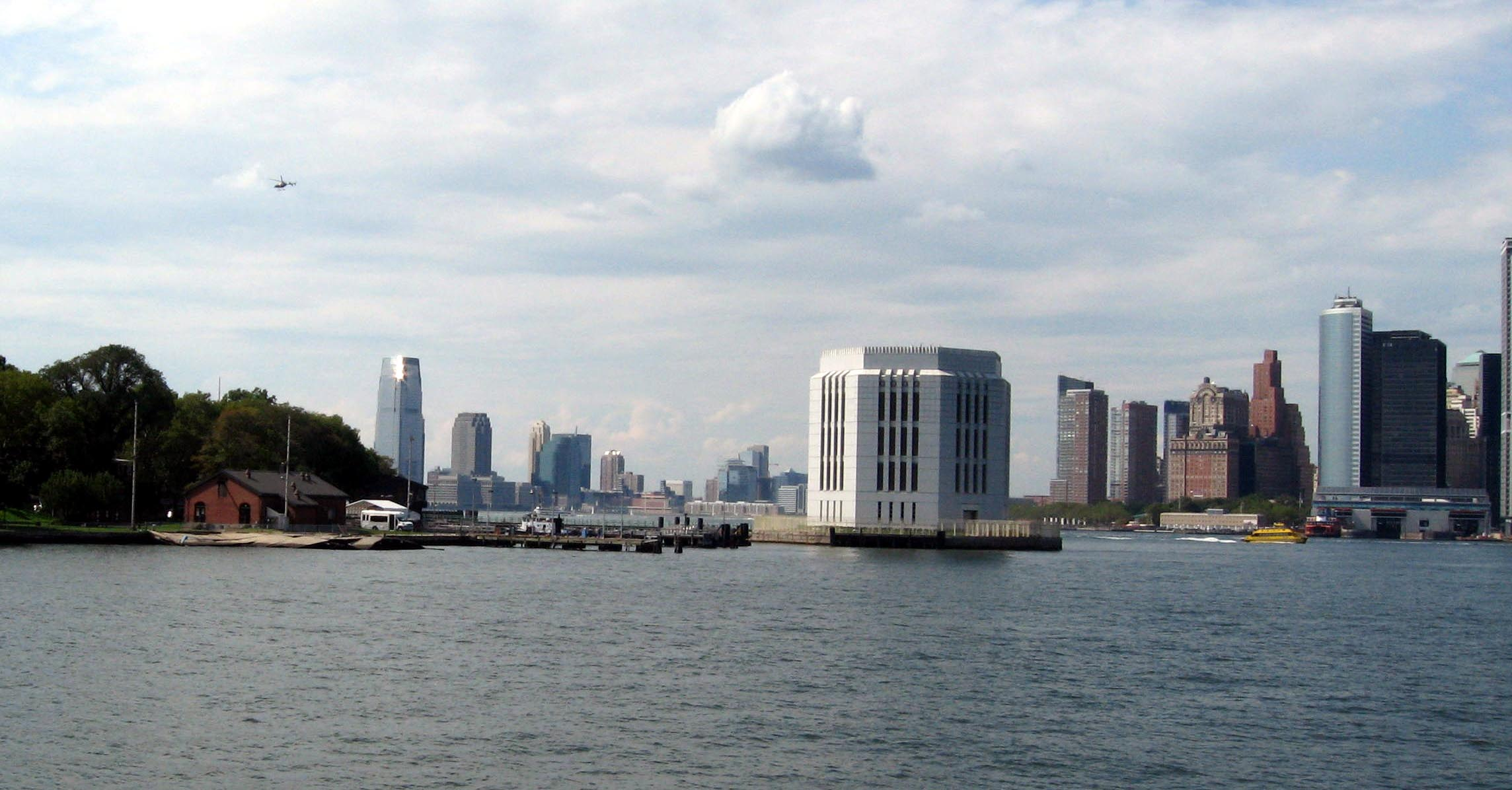 Looking north from a ferry in Buttermilk Channel at Governors Island ventilation tower of Brooklyn-Battery Tunnel on a mostly sunny afternoon.